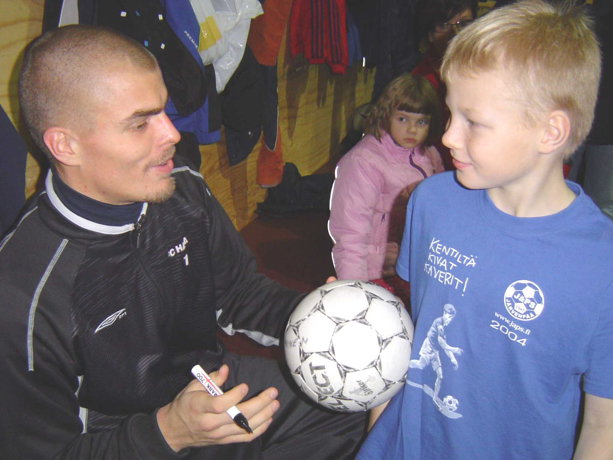 Finnish football goalkeeper Mikko Vilmunen giving autographs to young players of Järvenpään Palloseura (FC JäPS) in the Järvenpää football hall (known as the Fortum-hall) some days after winning the Finnish cup in 2005.